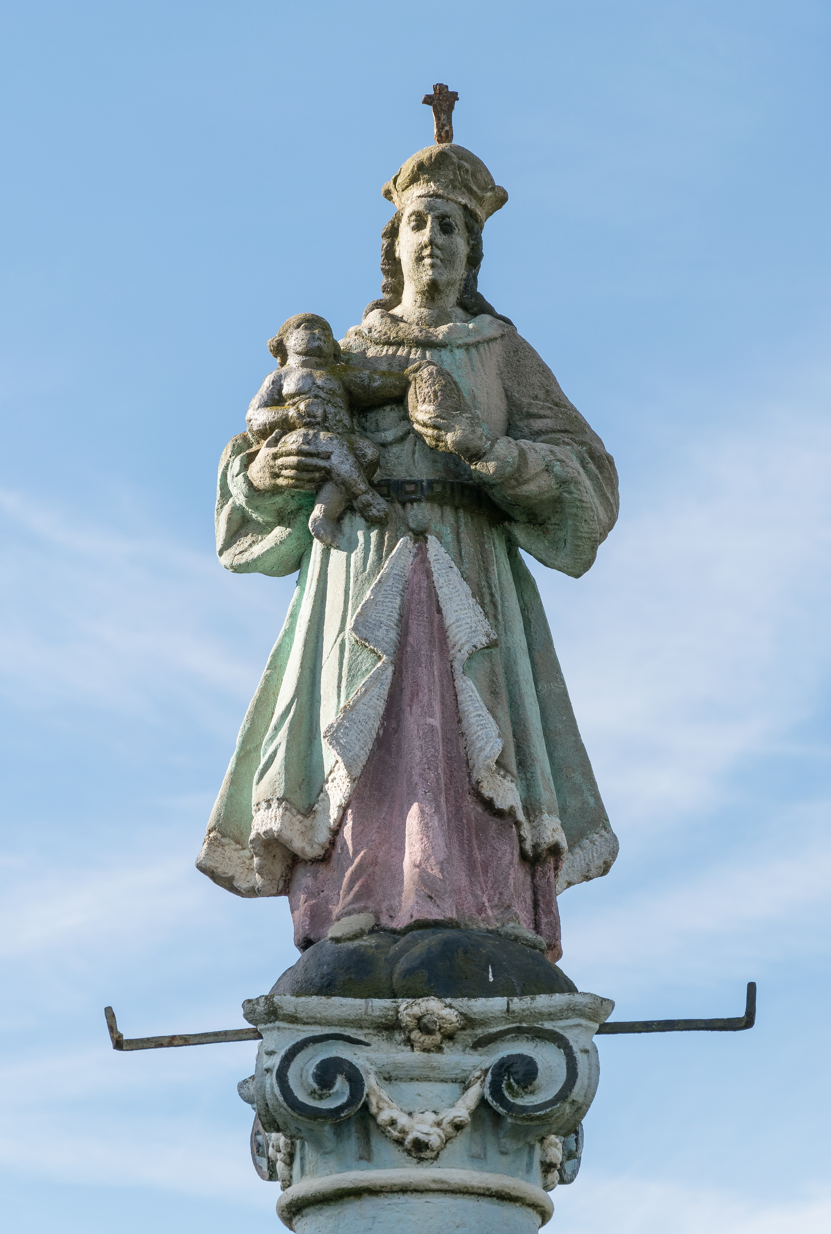 Maria column in Ruszowice